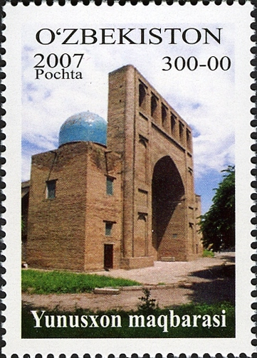 Stamps of Uzbekistan, 2007